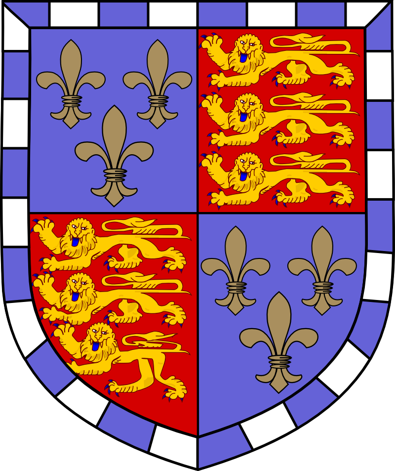 The shield of Christ's College, Cambridge, being the arms of the foundress Lady Margaret Beaufort.